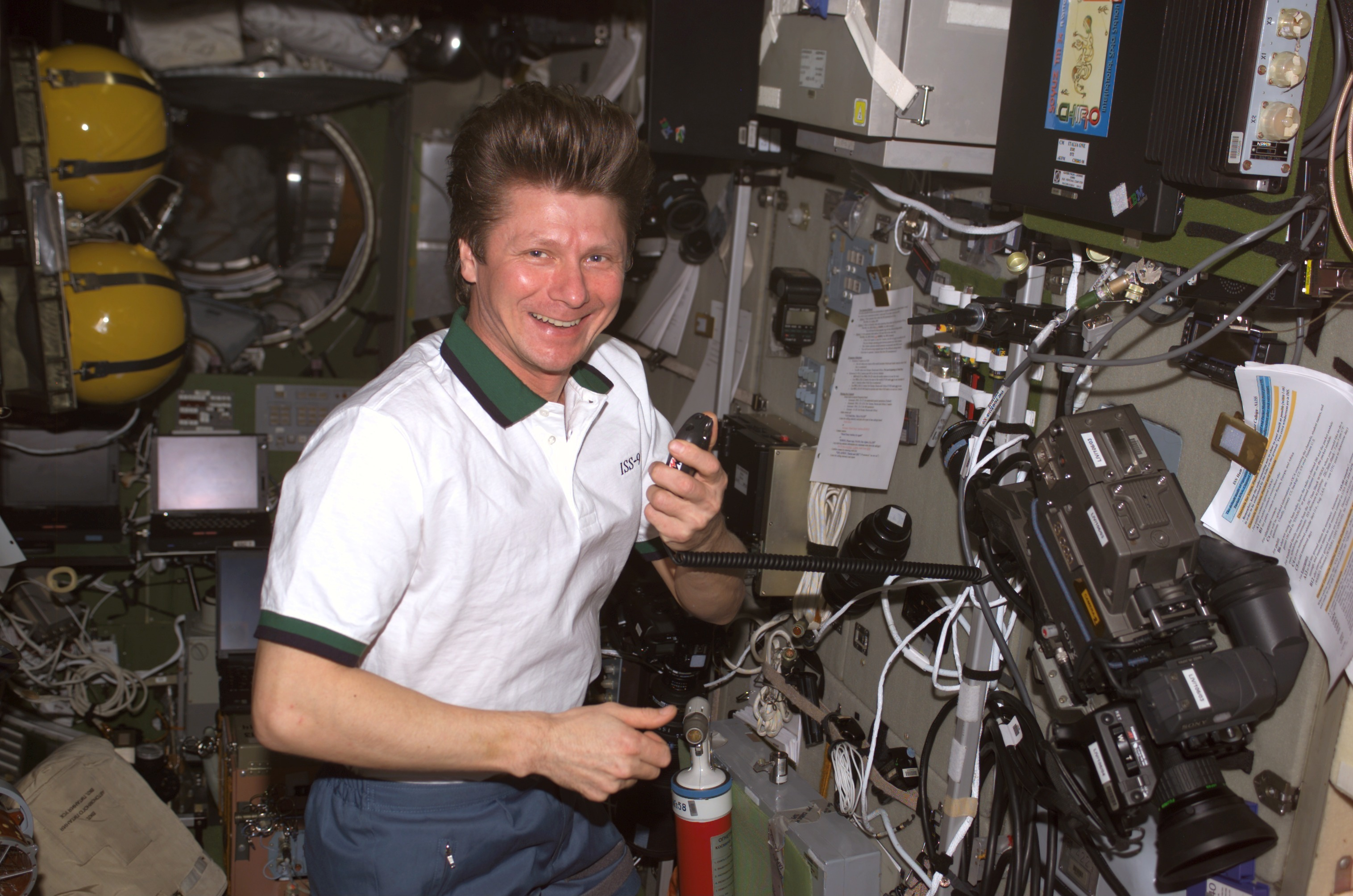 Cosmonaut Gennady I. Padalka, Expedition 9 commander representing Russia’s Federal Space Agency, uses a communication system in the Zvezda Service Module of the International Space Station (ISS).